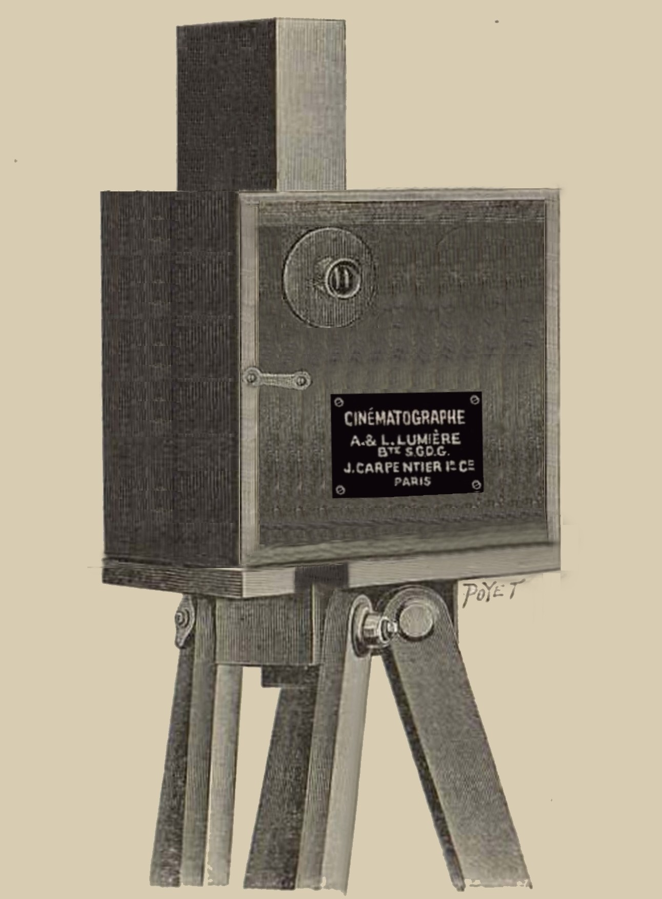 Cinematographe Camera mode filmation